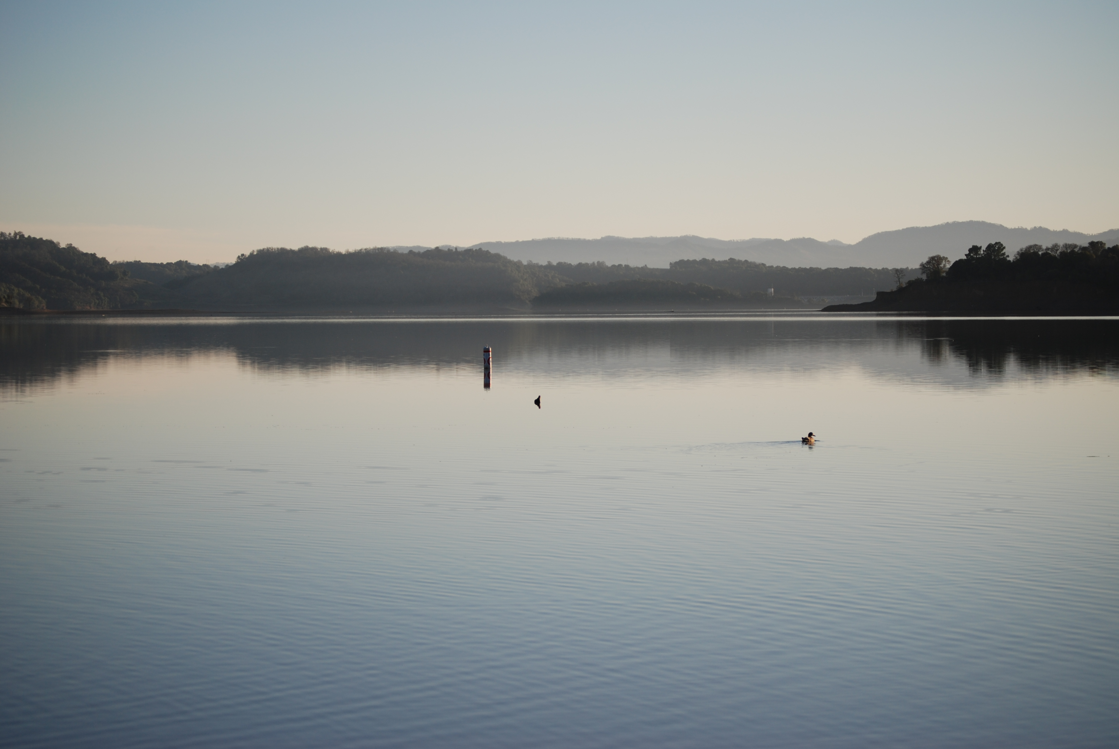 Lake Mendocino, near Ukiah, CA, taken from Northern shore. created KGlavin, Dec 29 2006